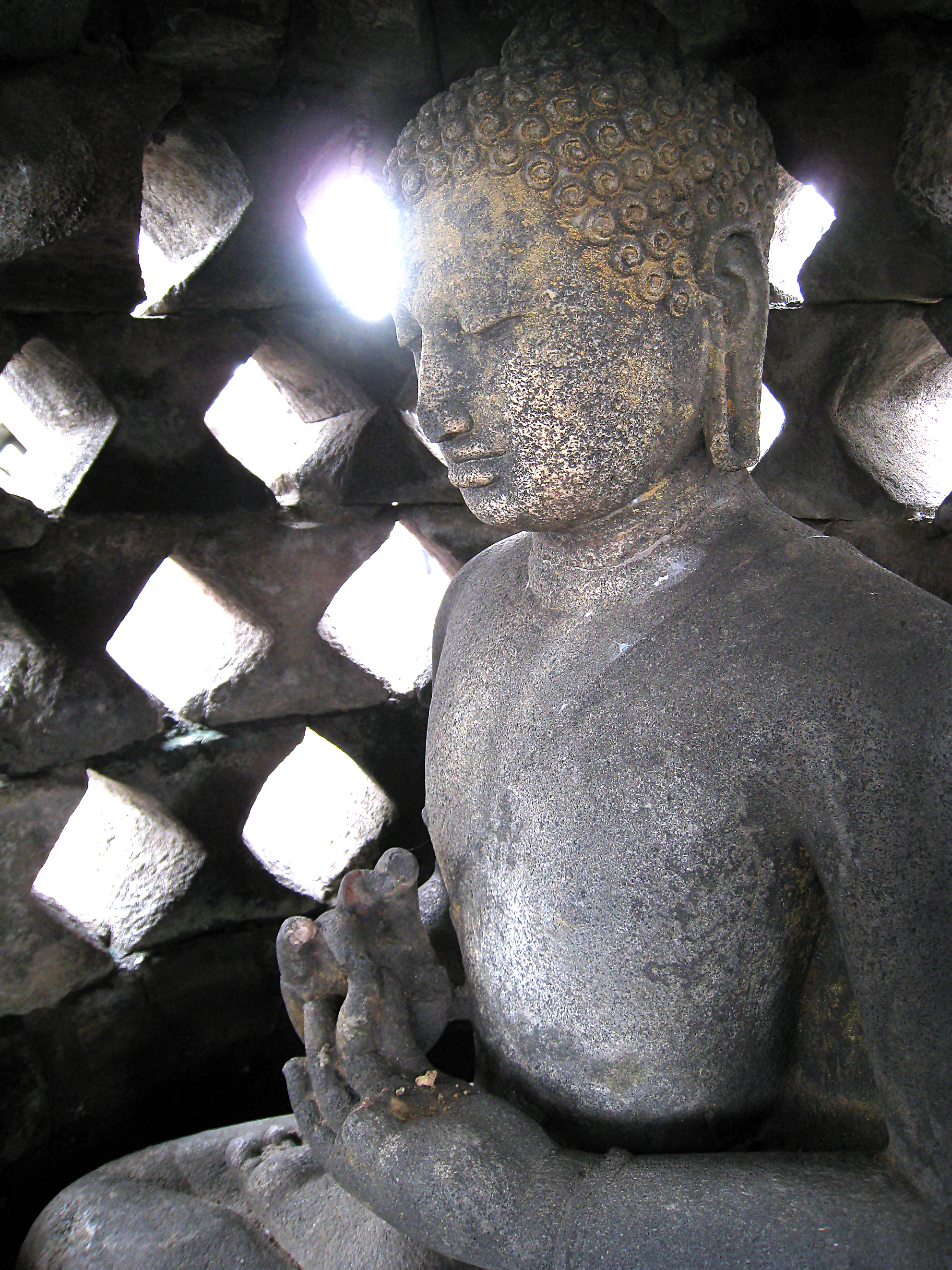 A meditative Buddha statue perform dharmachakra mudra hand gesture inside the perforated bell-shaped stupa on upper platform of Arupadhatu in Borobudur.